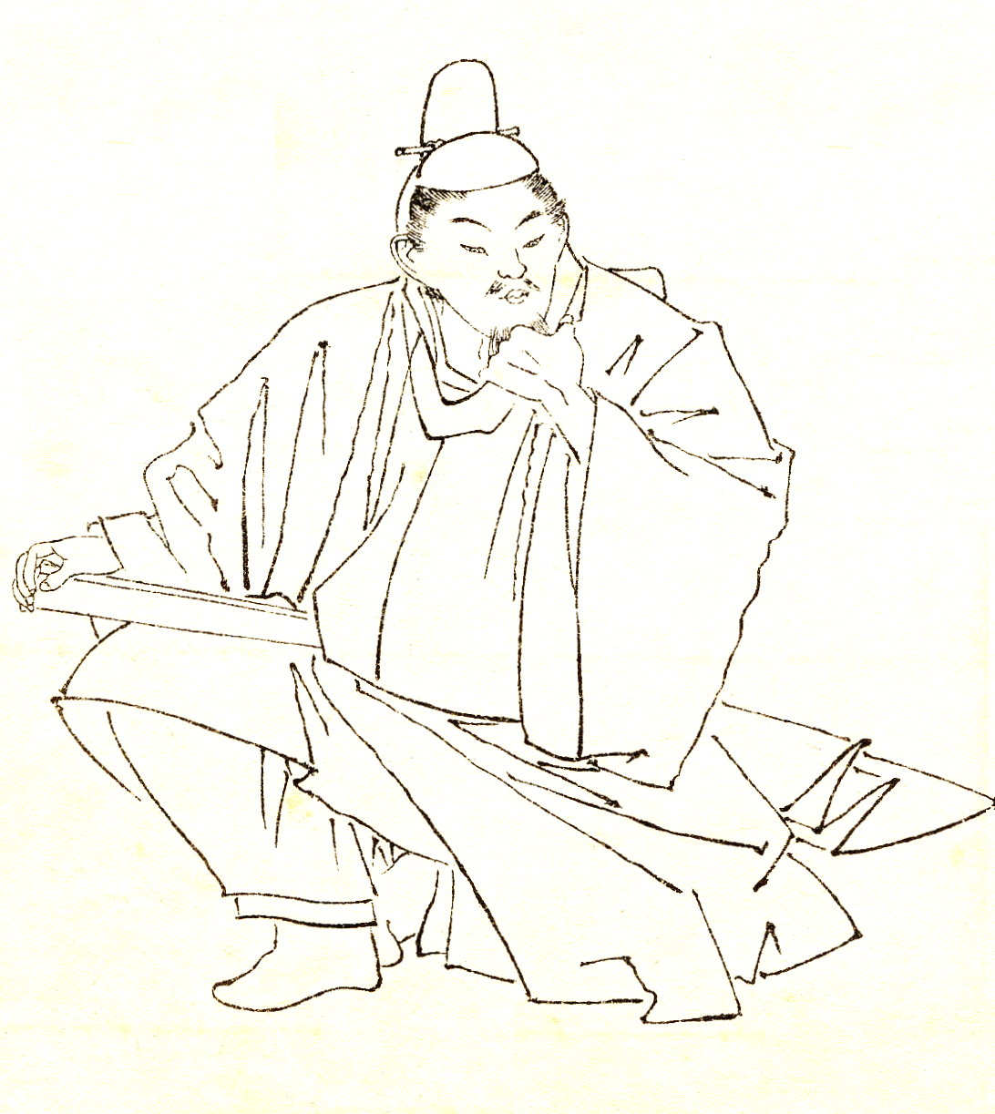 Yoshishige no Yasutane（慶滋保胤）was a literary man and a Confucian scholar in the middle of the Heian Period.This picture was drawn by Kikuchi Yosai（菊池容斎） who was a painter in Japan.